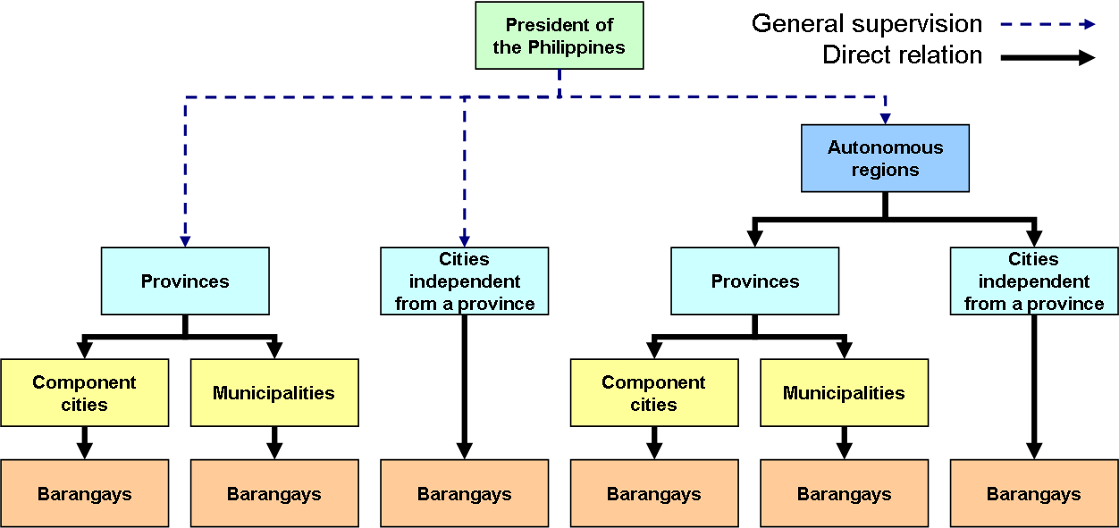 Local government hierarchy in the Philippines. The dashed lines emanating from the president means that the president only exercises general supervision on local government.